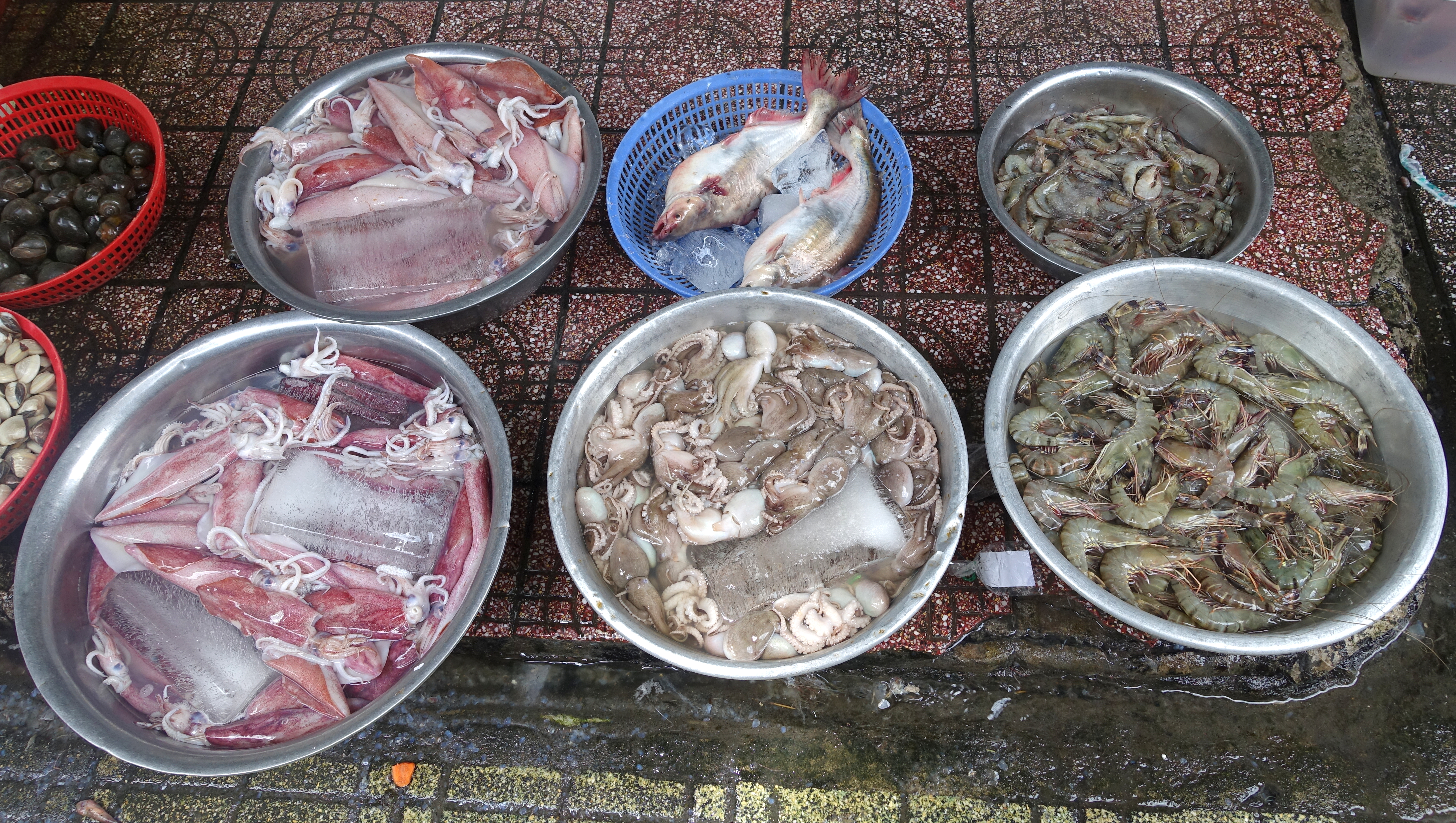 Seafood in Bến Thành Market (Chợ Bến Thành) - Ho Chi Minh City, Vietnam.